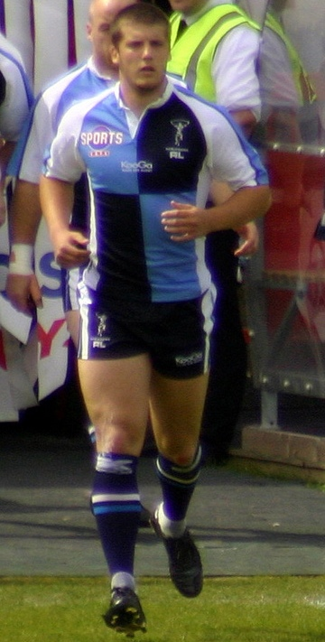 Tony Clubb